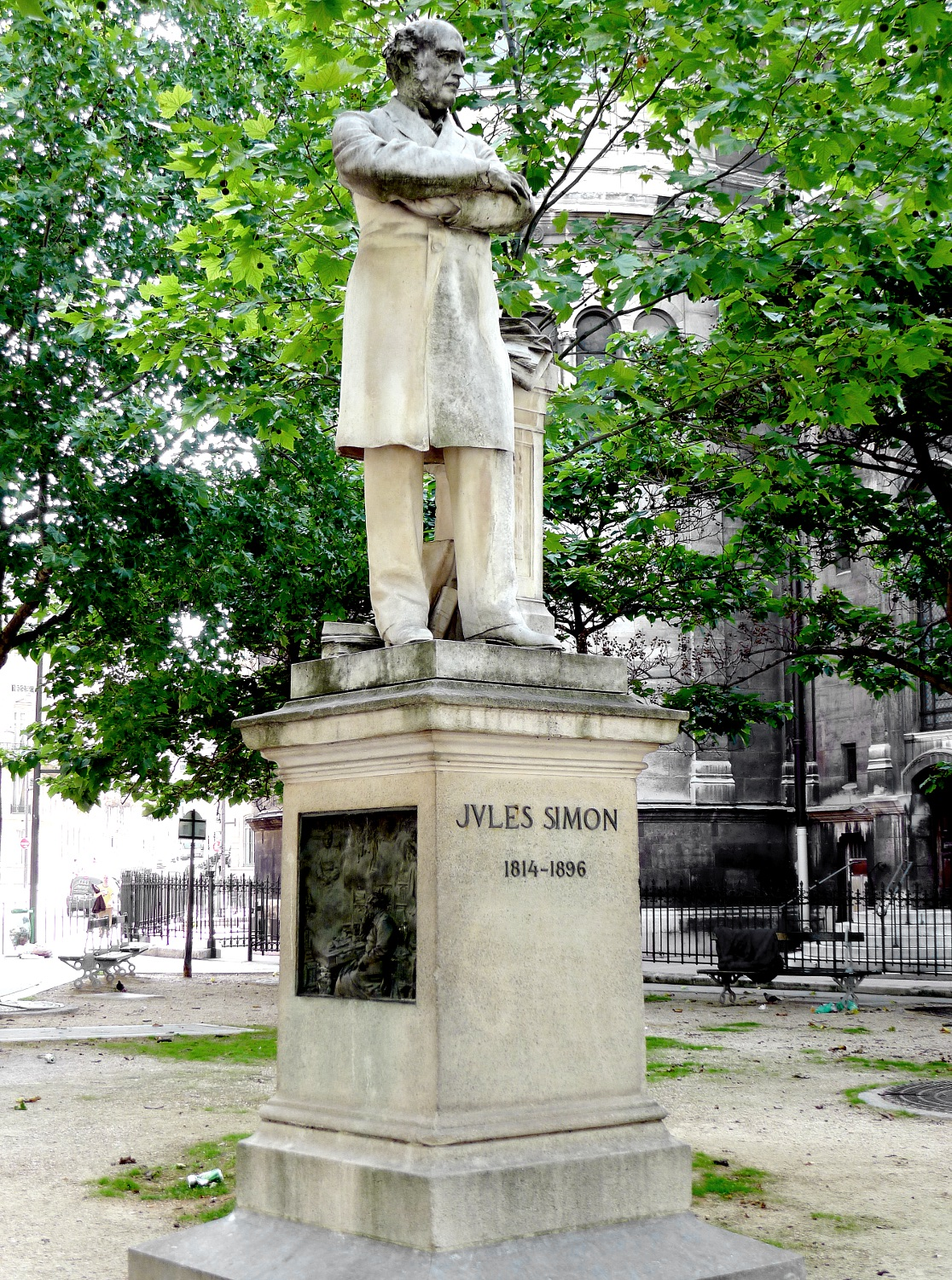 Jules Simon statue - Paris